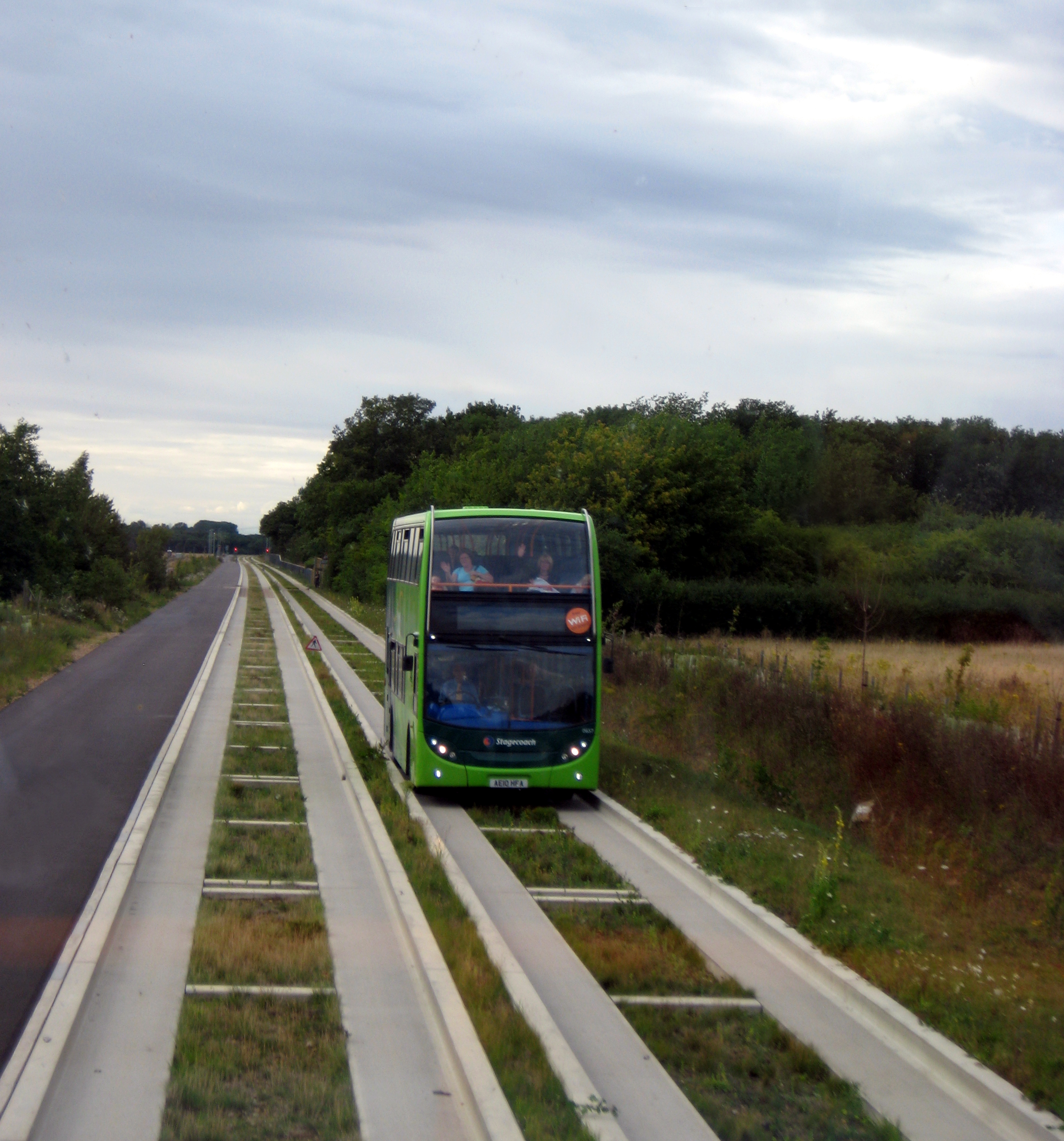 Stagecoach in Huntingdonshire bus 15657 (reg. AE10 HFA) pictured operating on the Cambridgeshire Guided Busway, on the stretch between Oakington and Longstanton. The parallel cycle path is on the left.